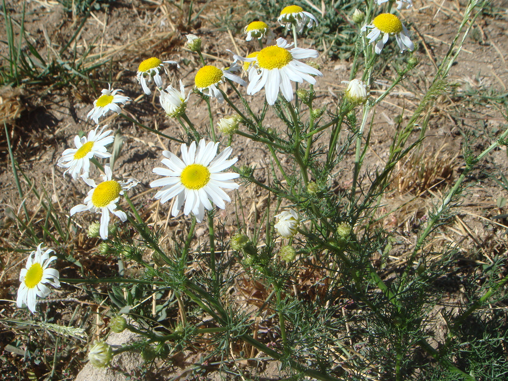 Scentless maywedd (Tripleurospermum inodorum syn. Tripleurospermum perforatum) at Sierra de Ávila, Spain.